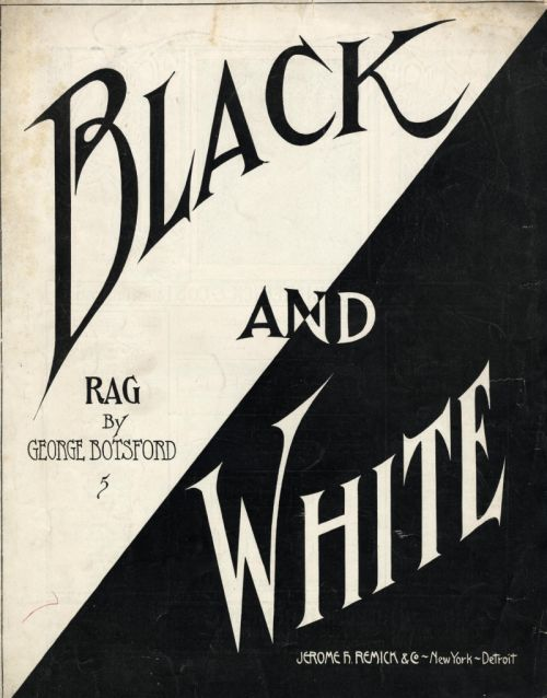 sheet music cover 1908 in public domain